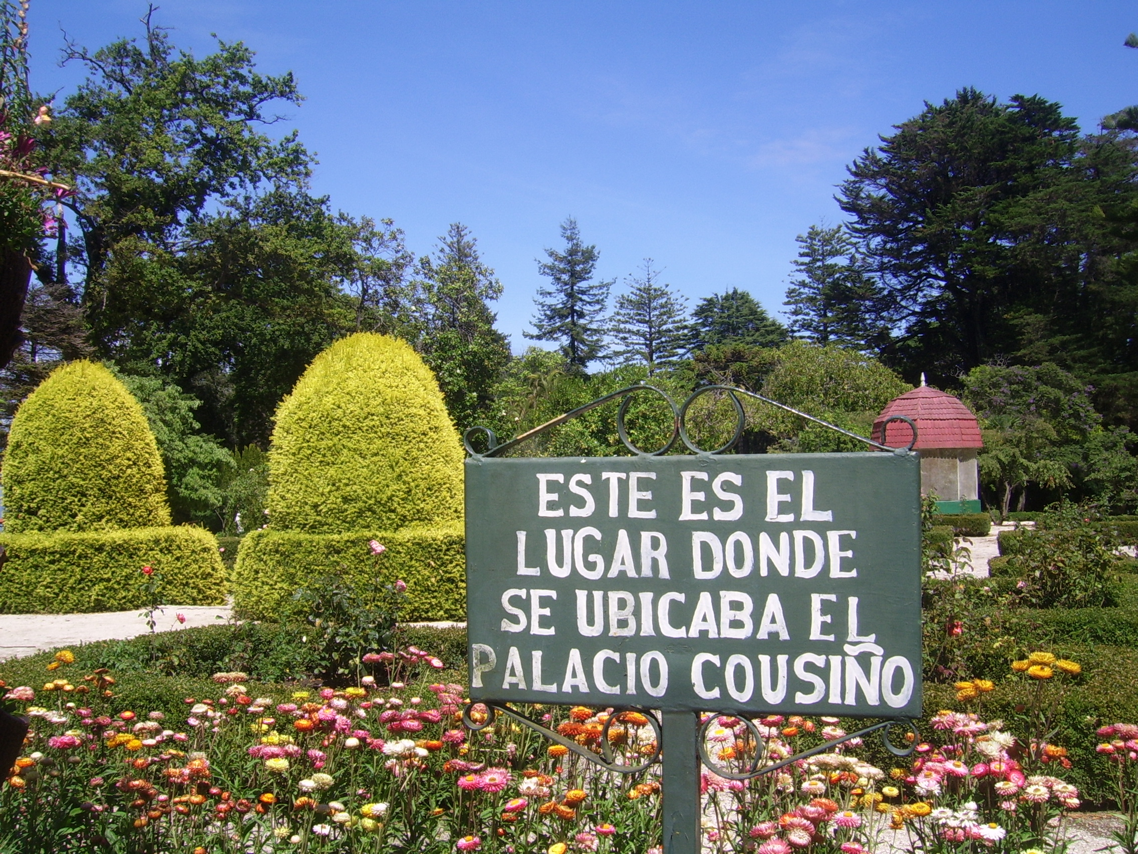 This is a photo of a national monument in Chile: 2130